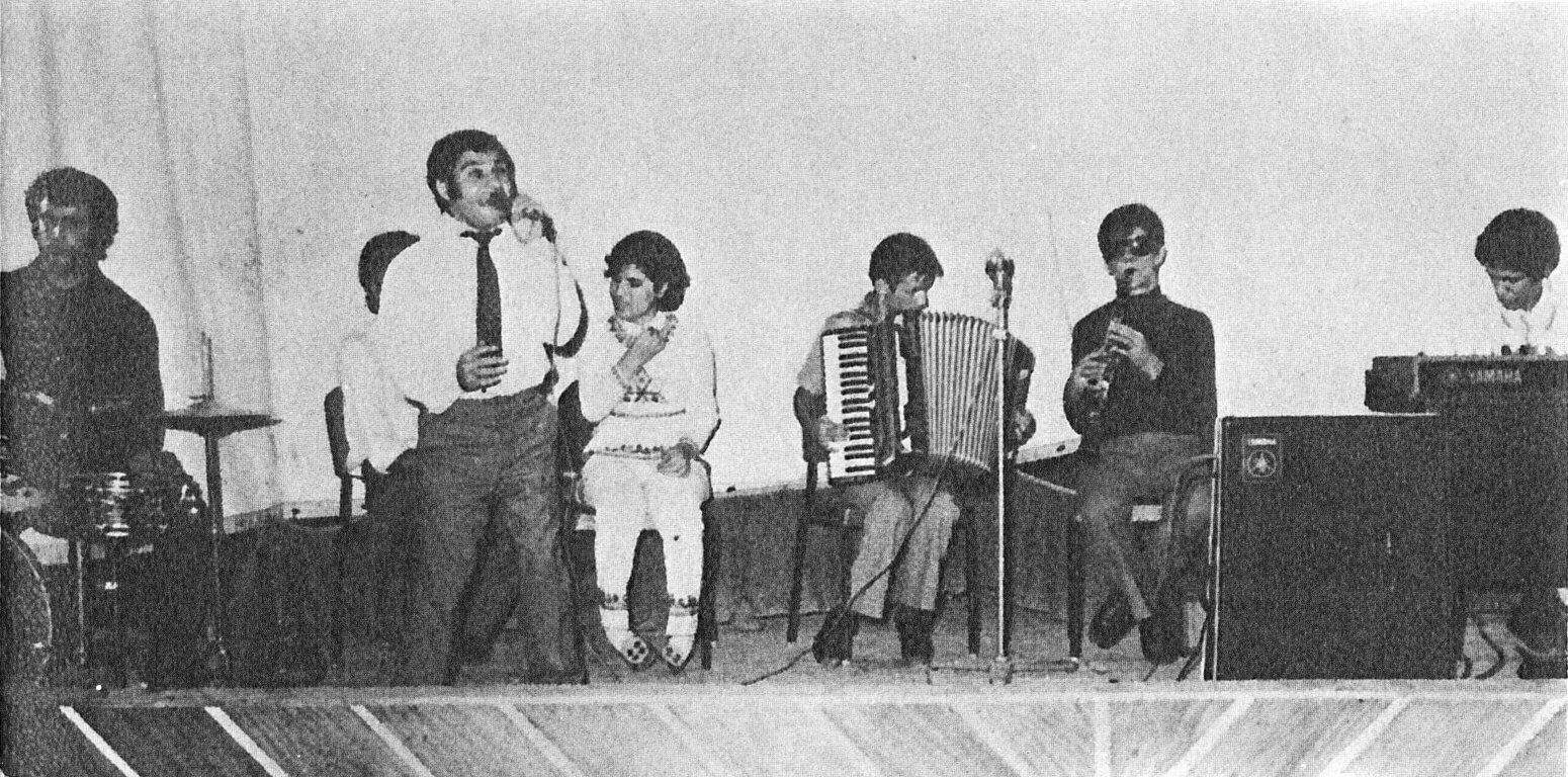 Concert of blind students of amuzeshgah nabinayan, Tehran, Iran